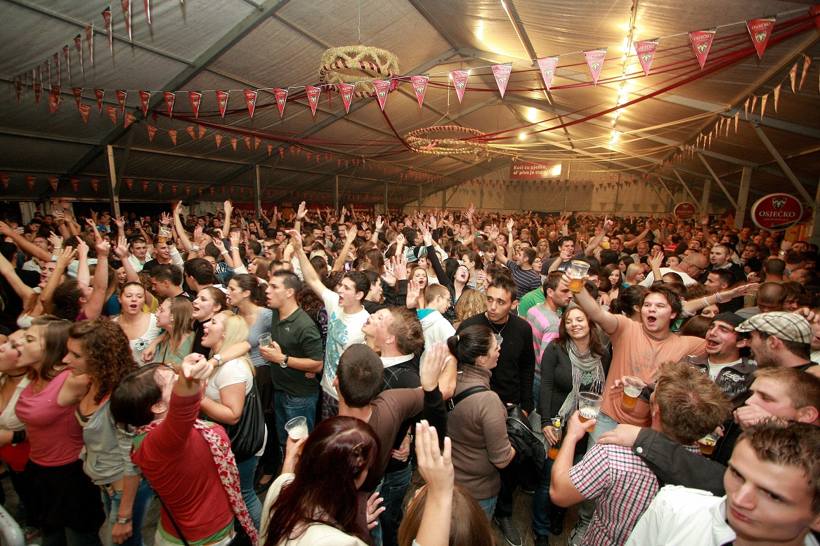 Days of the first Croatian beer 2011 in Osijek.